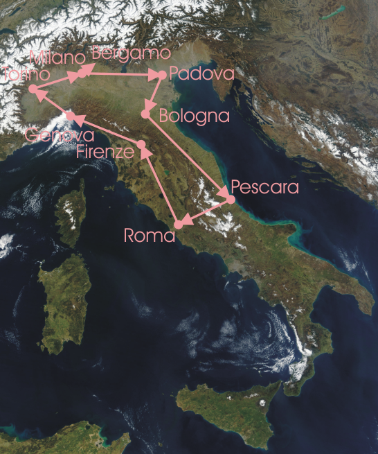 Map of Italy highlighting the stages of 1912 Giro d'Italia